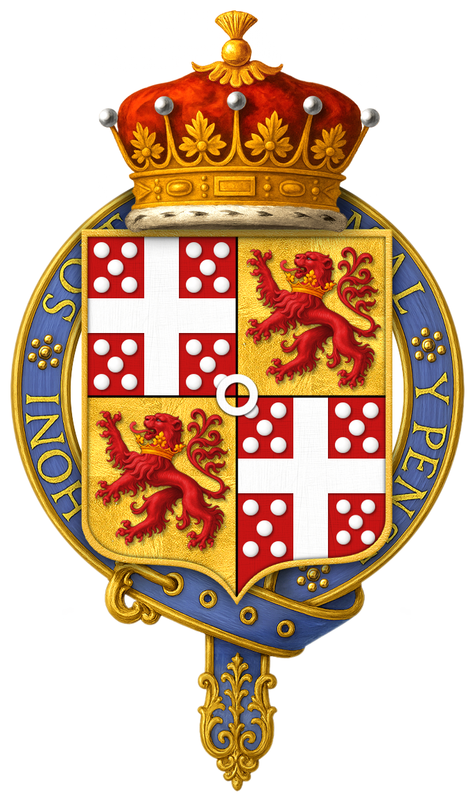 Shield of arms of Henry Wellesley, 1st Earl Cowley, KG, as displayed on his Order of the Garter stall plate in St. George's Chapel.